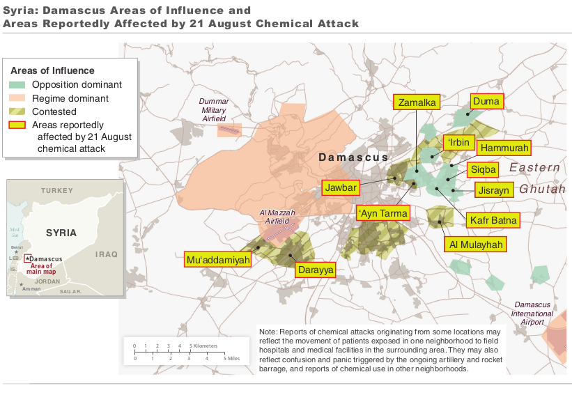 Syria Damascus Areas of Influence and Areas Reportedly Affected by 21 August 2013 Chemical Attack.